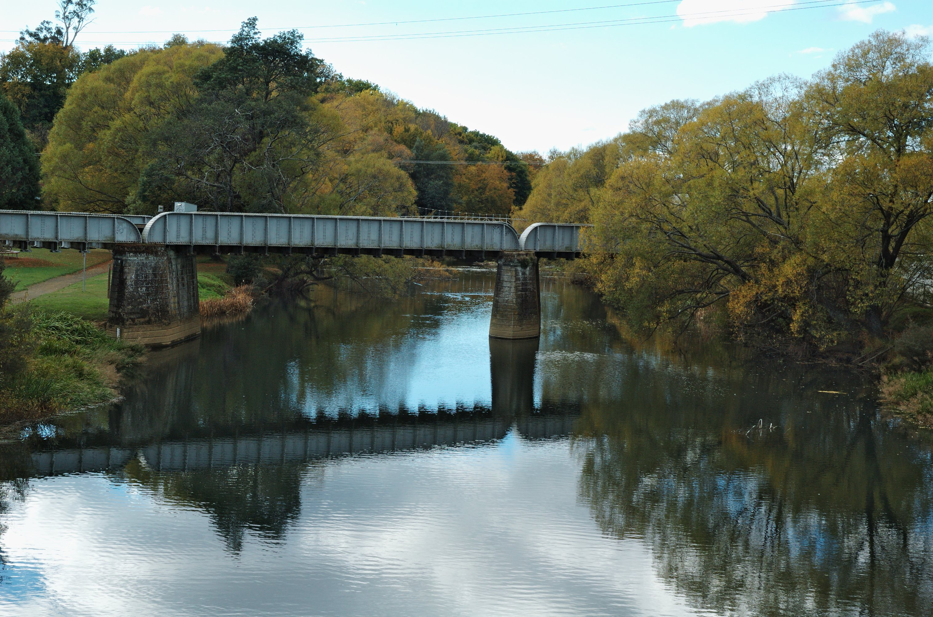 Railway bridge over the Meander River in Deloraine, Tasmania.